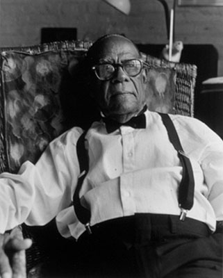 Photograph taken by Enrique Cervera in 1992 in my studio in Brooklyn, NY, USA